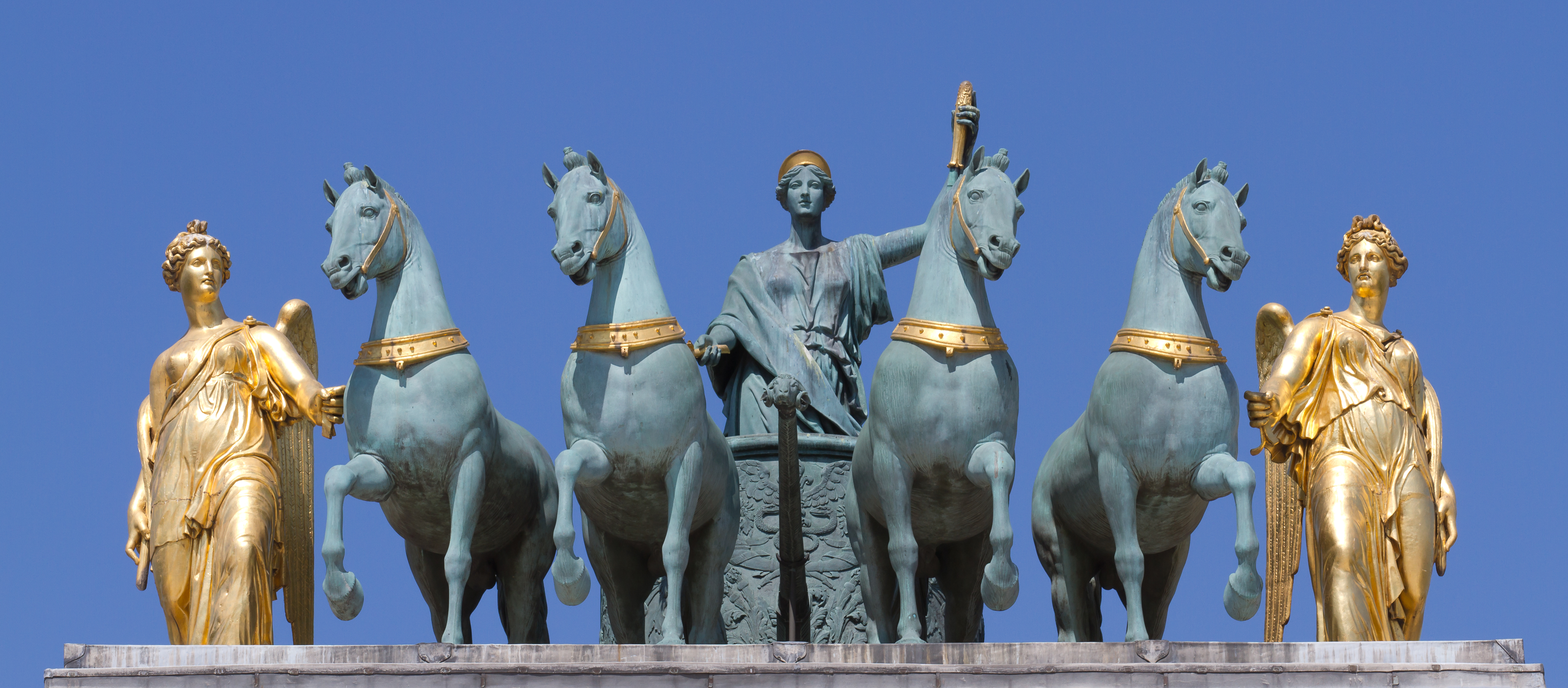 Quadriga on the Arc de Triomphe du Carrousel, Paris: Peace riding in a triumphal chariot, by François-Joseph Bosio (1828).